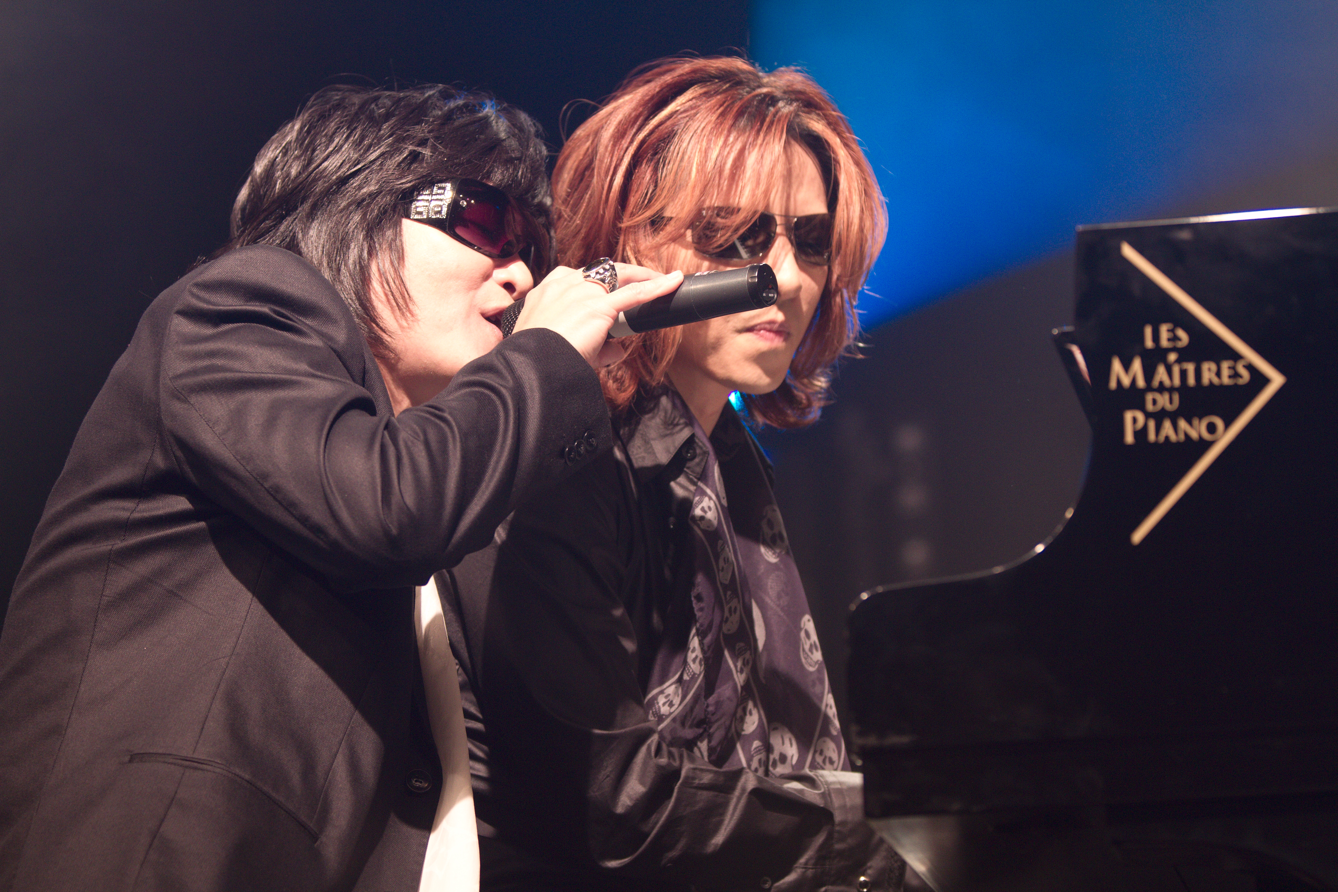 Toshi and Yoshiki, from X Japan, duets at Japan Expo 2010 (Paris, France).